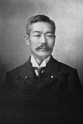 Harenaga Tsuchimikado